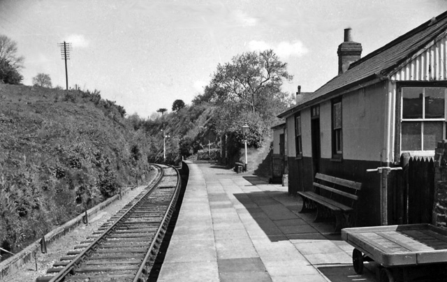 Bryn Teify Station. View southward, towards Pencader and Carmarthen; ex-Great Western, Carmarthen - Pencader - Lampeter - Aberystwyth line. The station closed on 22/2/65, when the Carmarthen - Aberystwyth service ceased, but the line remained open Lampeter - Carmarthen, mainly for milk traffic from Felin Fran, until 1973. See also SN4539 : Bryn Teify Station.